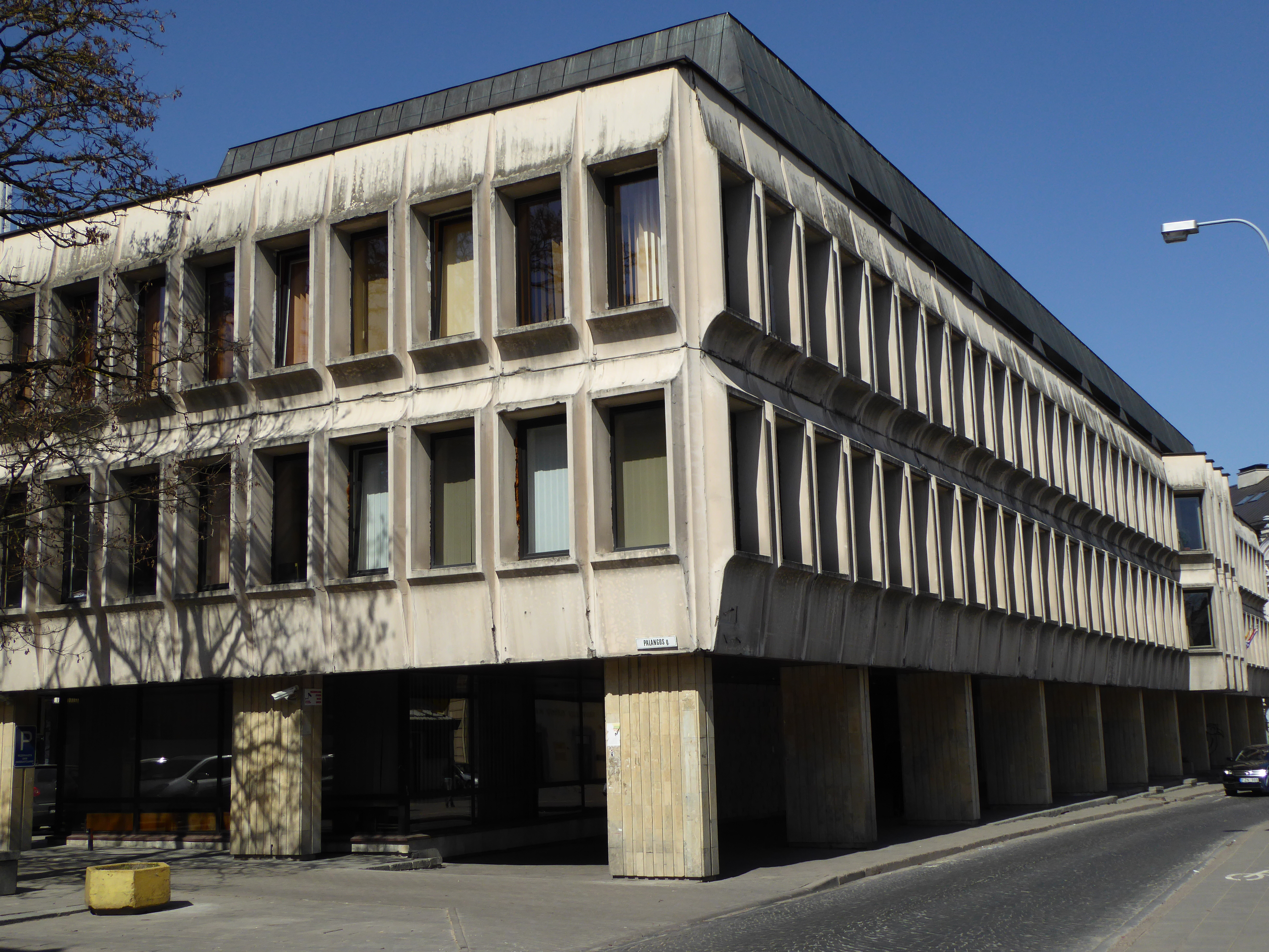 Ministry of Health, Vilniaus Street, Vilnius, Lithuania, April 2015 (at corner of Palangos Street)